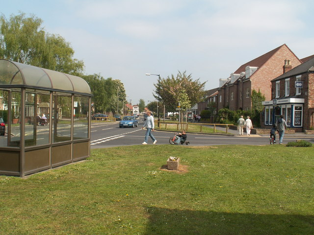 Haxby Village, York/North Yorkshire